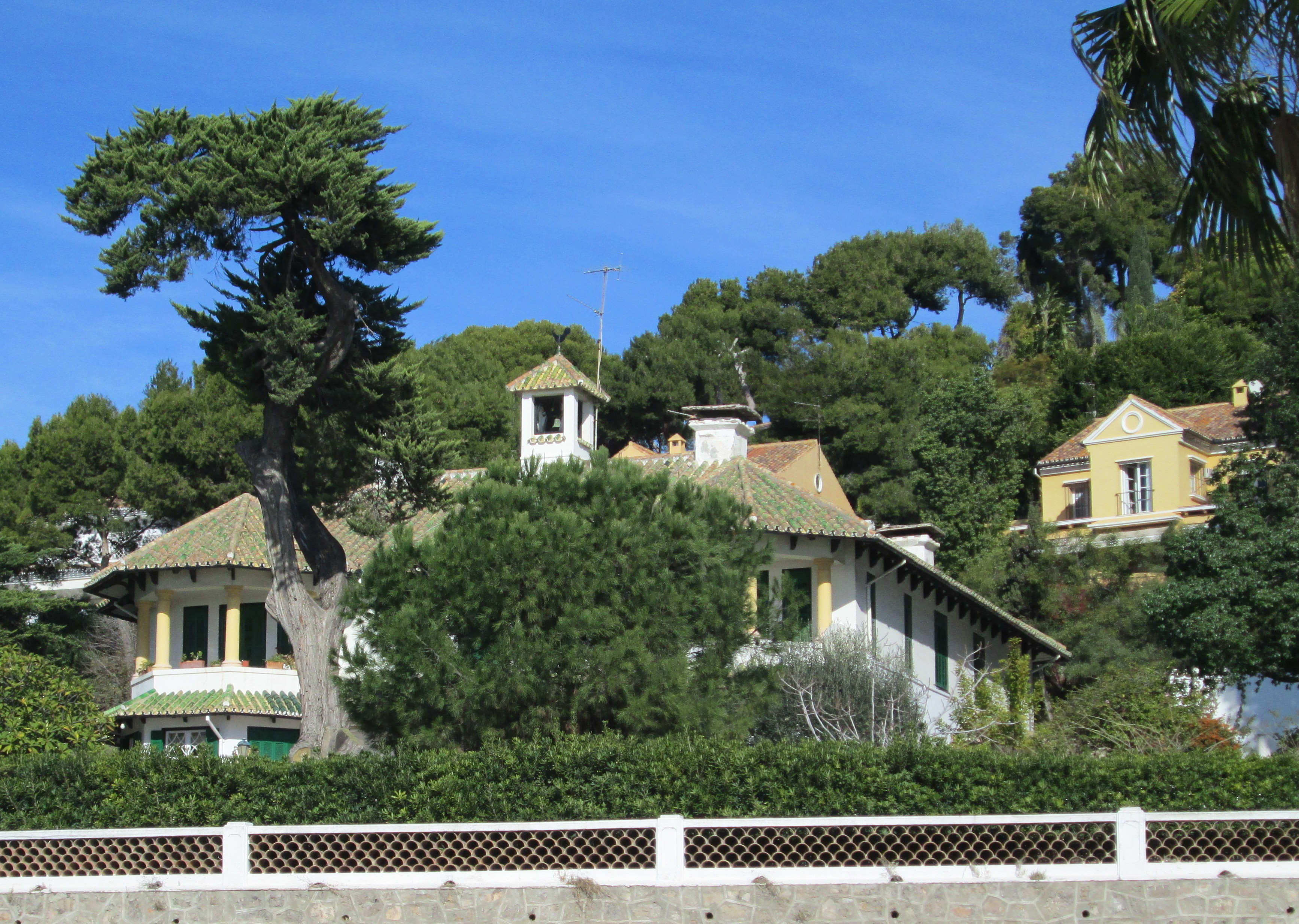 Malaga